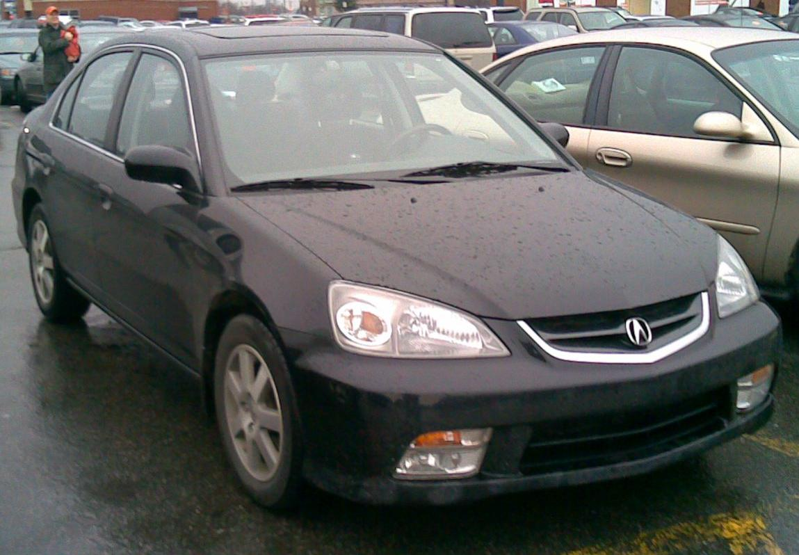 2004-2005 Acura EL photographed in Montreal, Quebec, Canada.